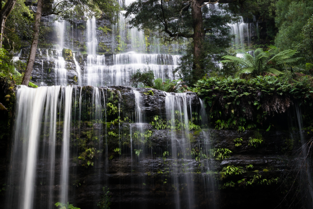 Russell Falls in the heart of Mount Field National Park